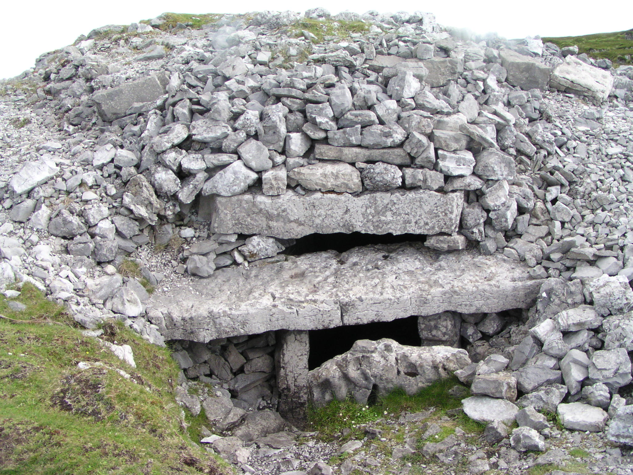 Megalithic Cairn at Carrowkeel, Co. Sligo